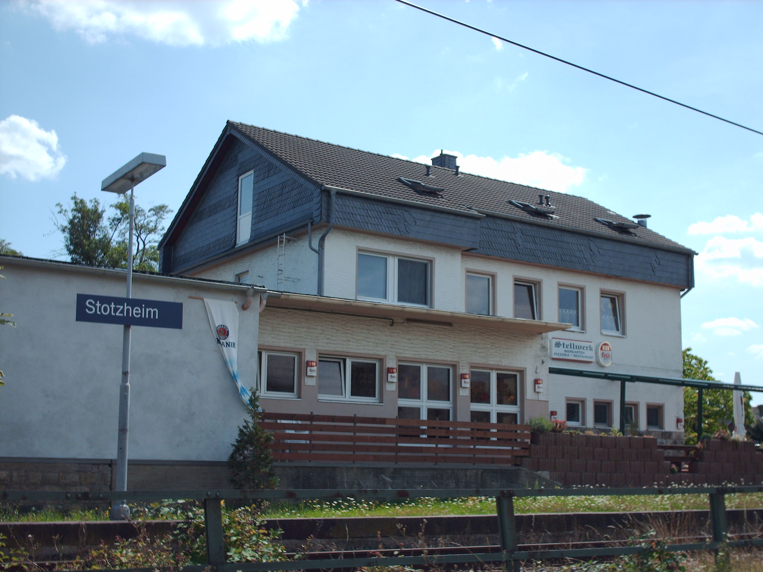 Stotzheim station, Euskirchen, Germany check usage